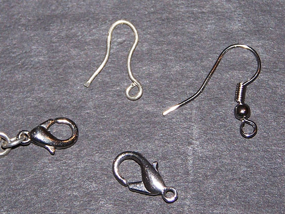 Findings include ear wires and clasps